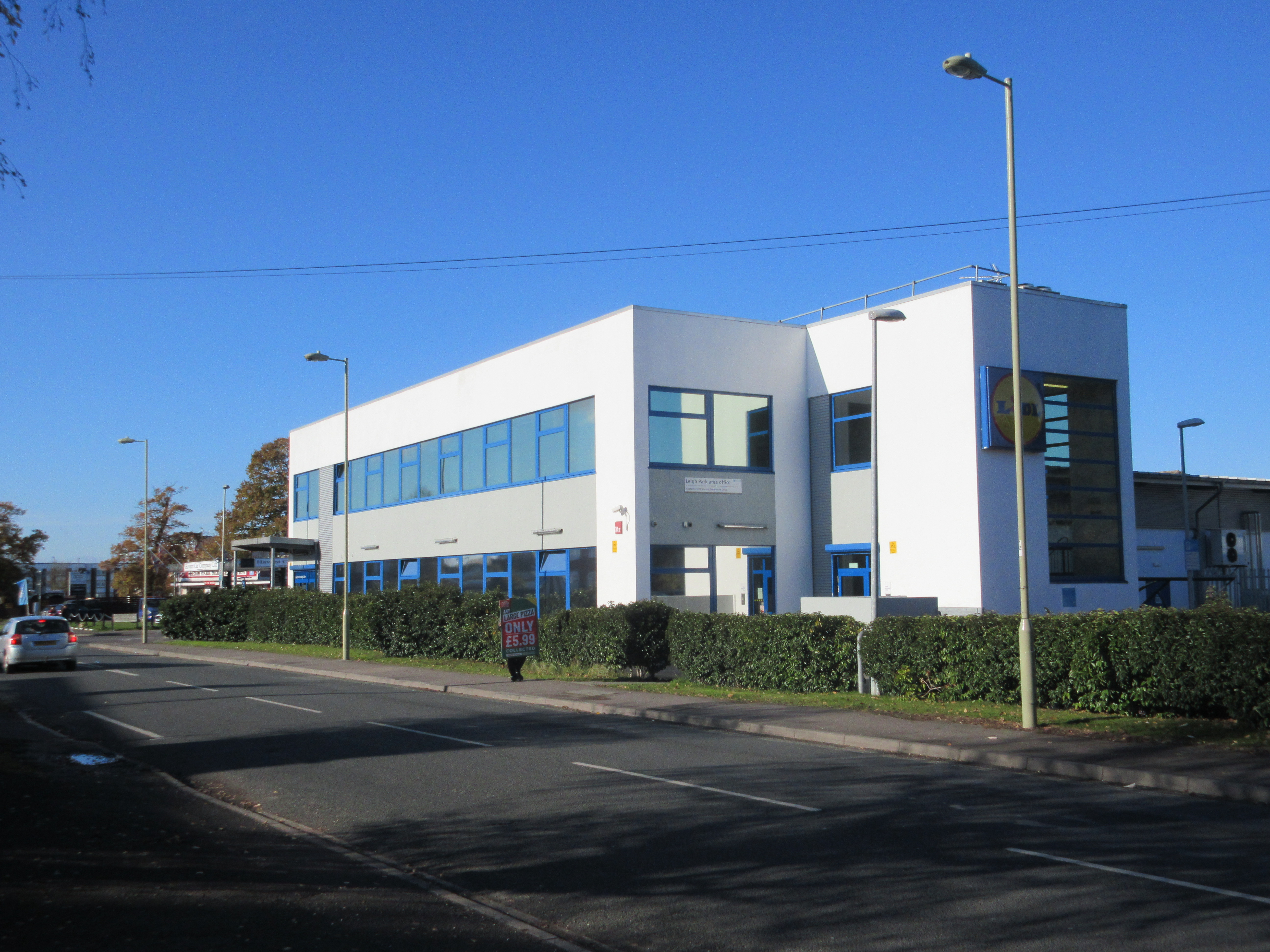 Portsmouth City Council Leigh Park area office. Most social housing in Leigh Park cam under Portsmouth rather than Havant, hence the reason for the area office. This office in a supermarket building replaced an earlier office in the north area of the same site in the 2000s.